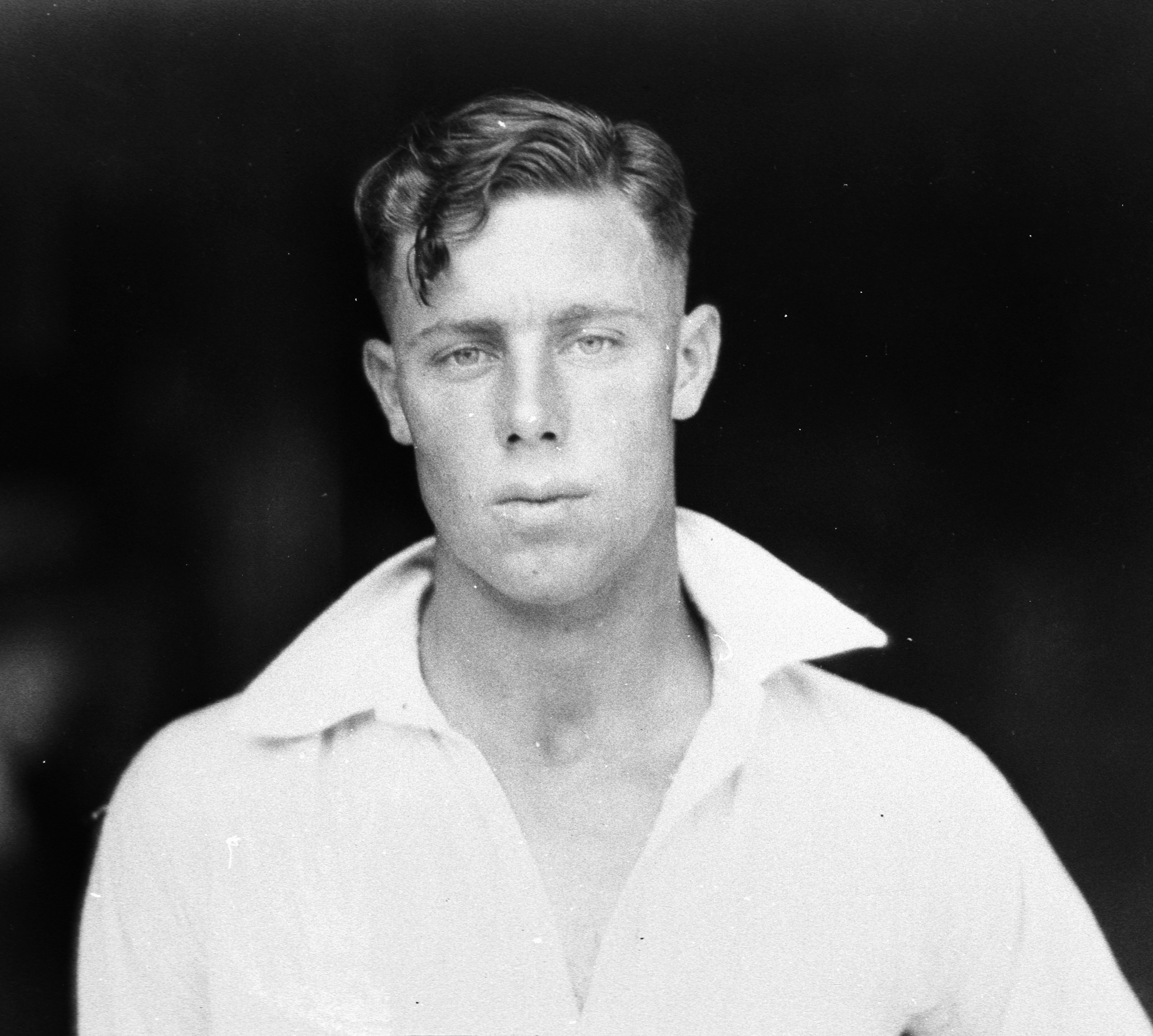 [Portrait of cricketer Ern Bromley]